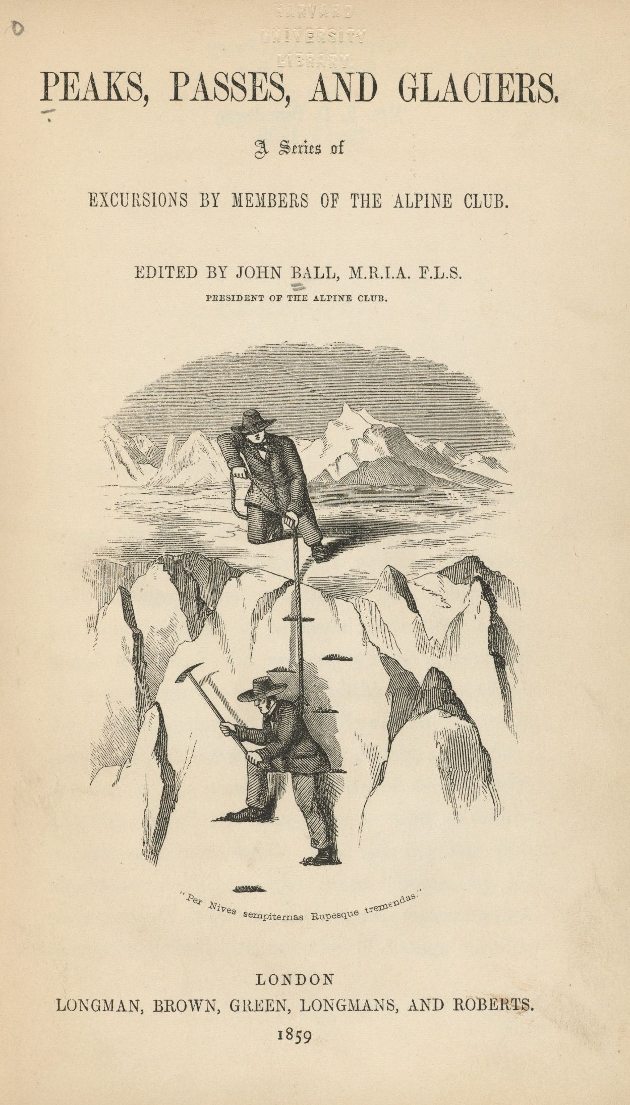 Title page from Peaks, passes, and glaciers. A series of excursions by members of the Alpine Club, edited by John Ball, published in London by Longman, Brown, Green, Longmans, and Roberts, 1859. Swi 688.59, Houghton Library, Harvard University